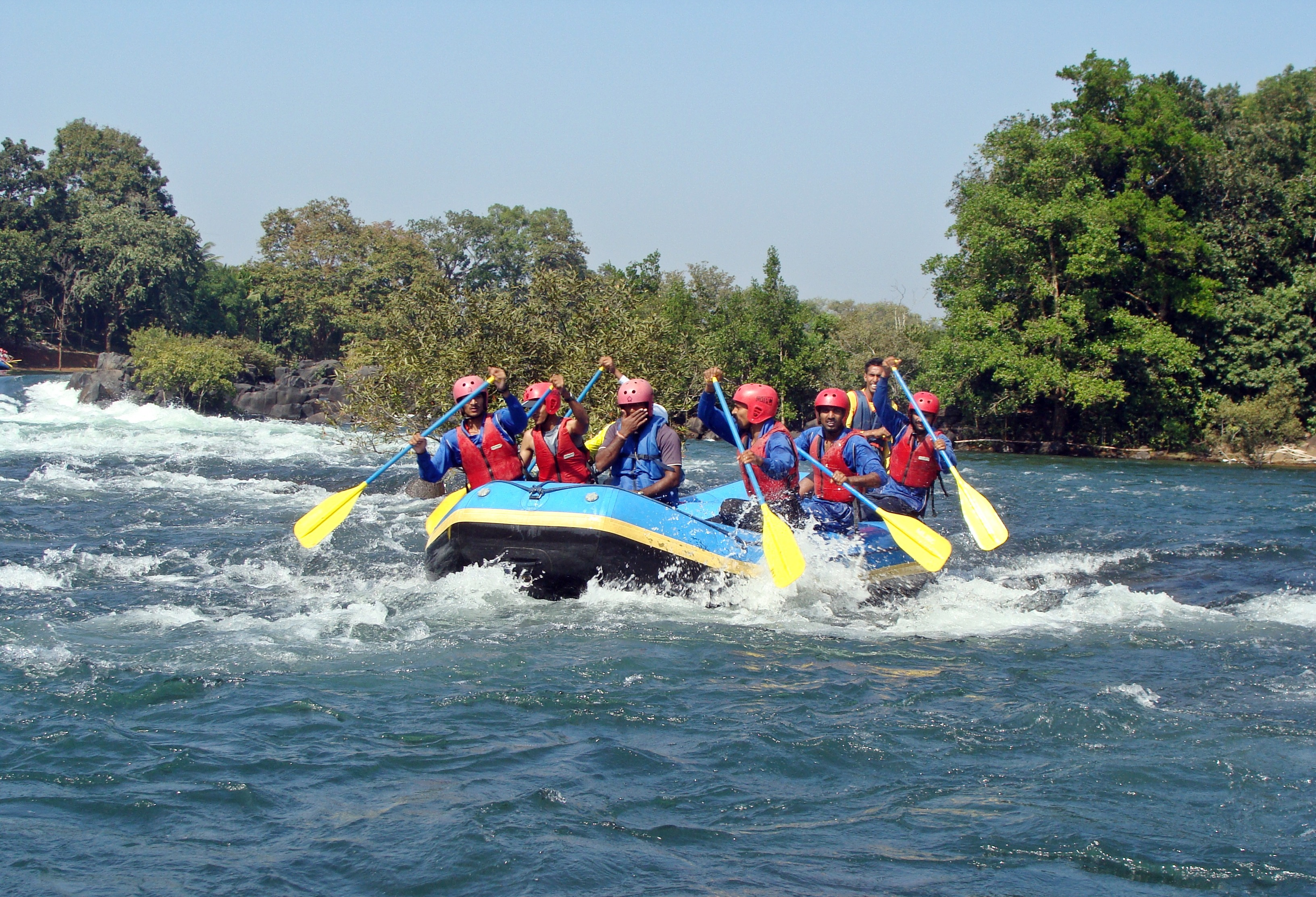 Kali river white water rafting near Dandeli. From Ganeshgudi to Maulangi